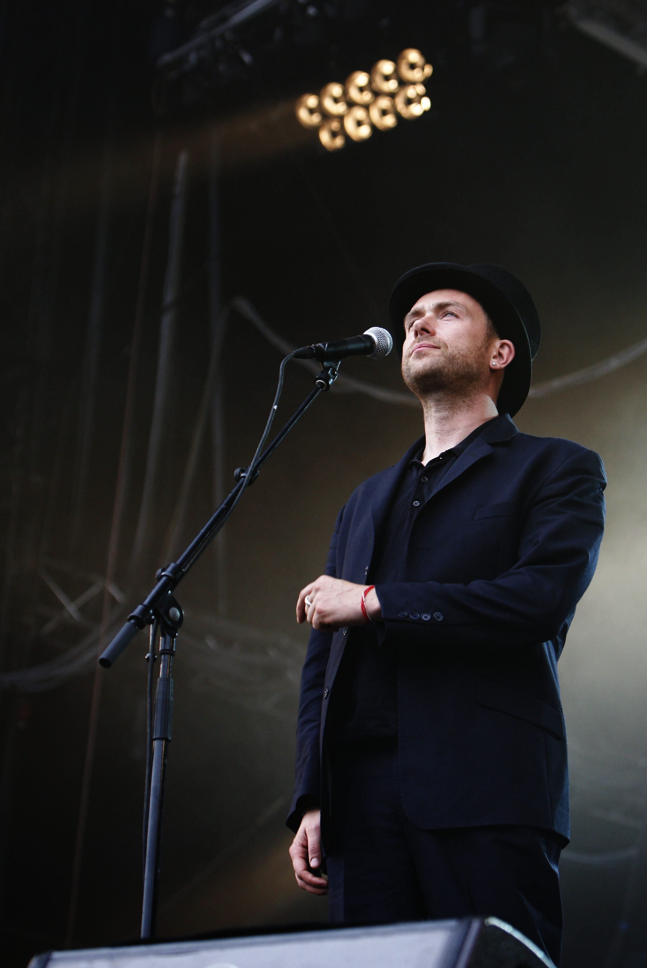 Damon Albarn at the Eurockéennes of 2007